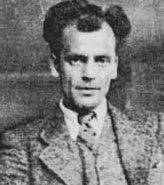 Ceko Stefanov Popivanov, macedonian publicist